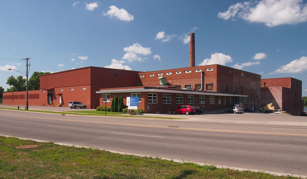 Faribault Woolen Mill Company, Faribault, Minnesota, USA. Viewed from the northeast.